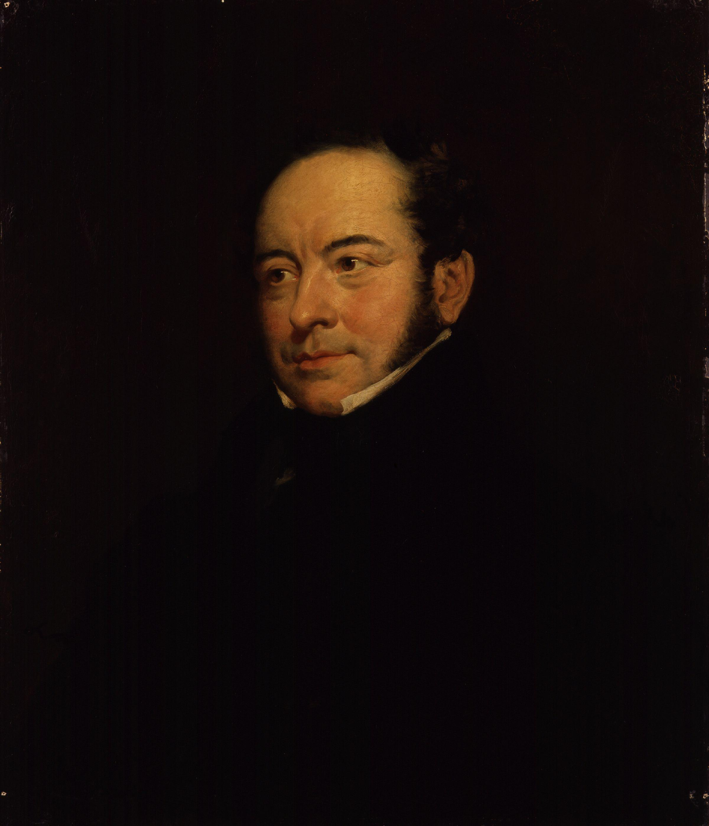 Theodore Edward Hook, by Eden Upton Eddis (died 1901). All images in this batch have been confirmed as author died before 1939 according to the official death date listed by the NPG.